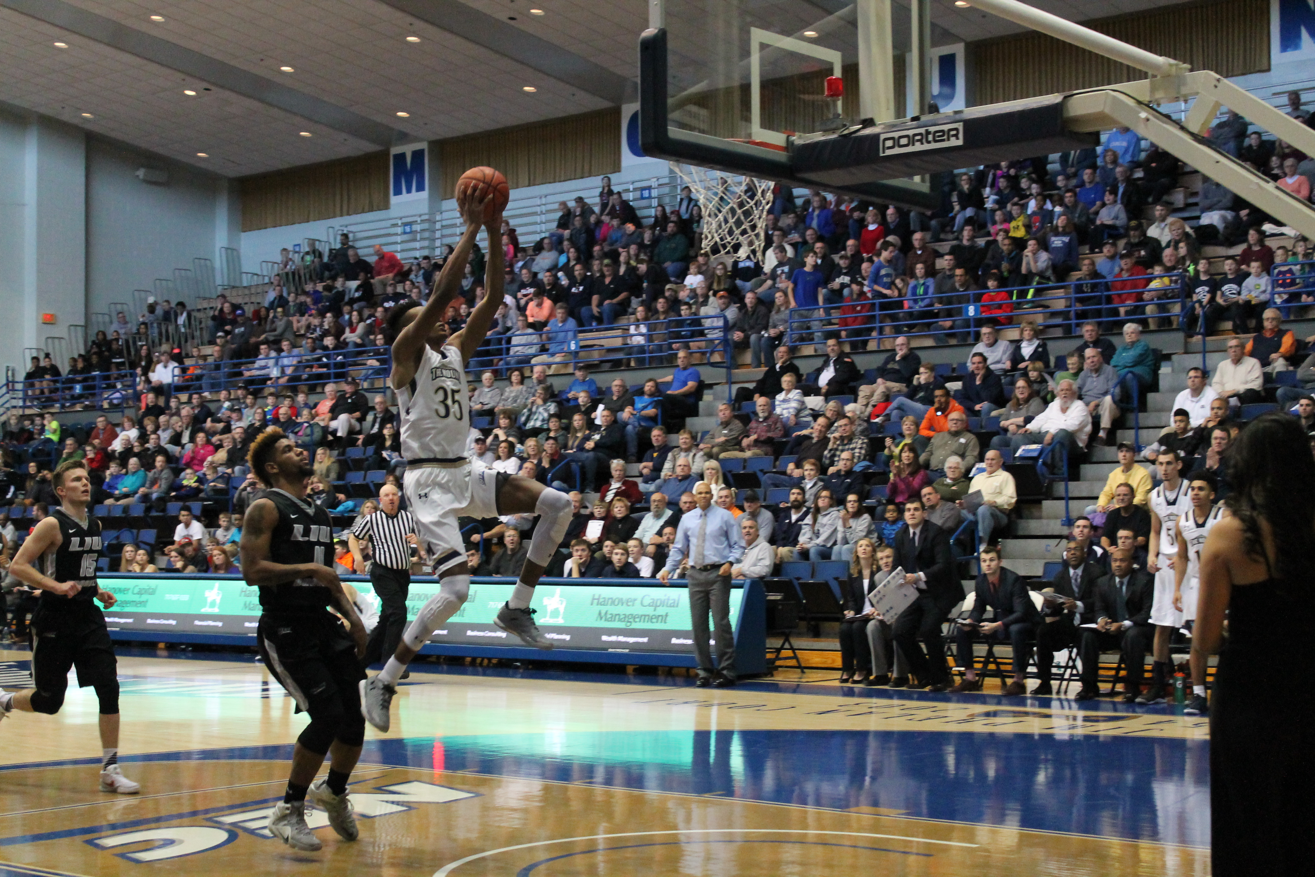 Mount St. Mary's men's basketball player Chris Wray takes a shot during a Northeast Conference game against LIU-Brooklyn on January 2, 2016 at Knott Arena in Emmitsburg, Maryland.